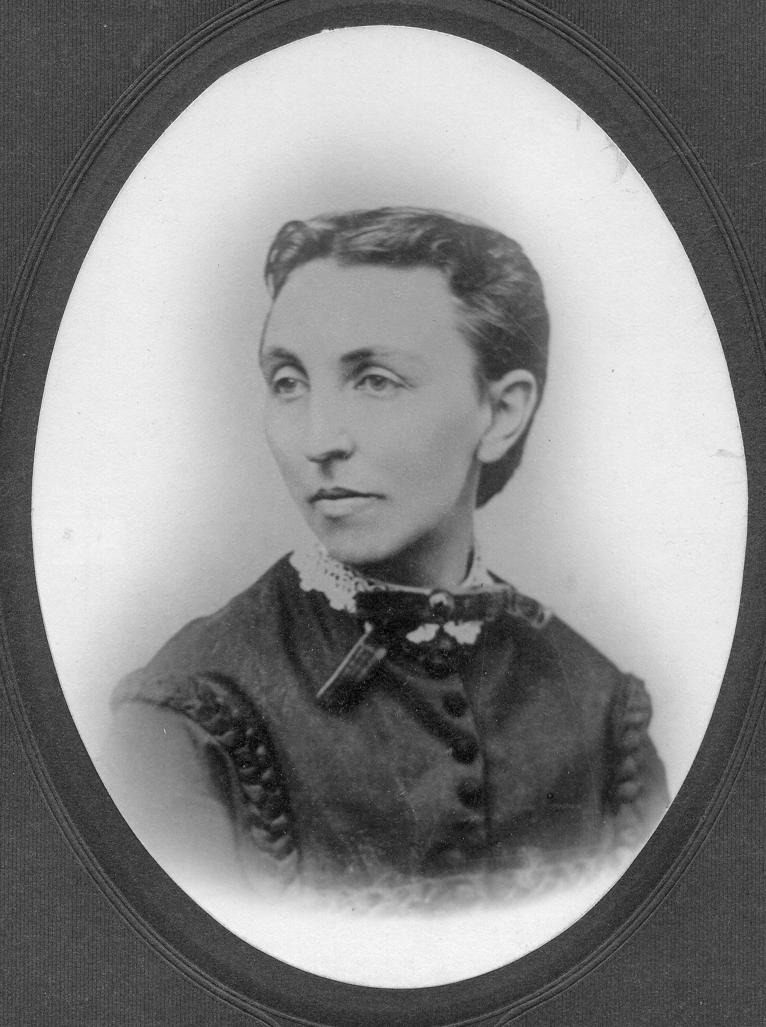 Amanda T. Jones at age 44.